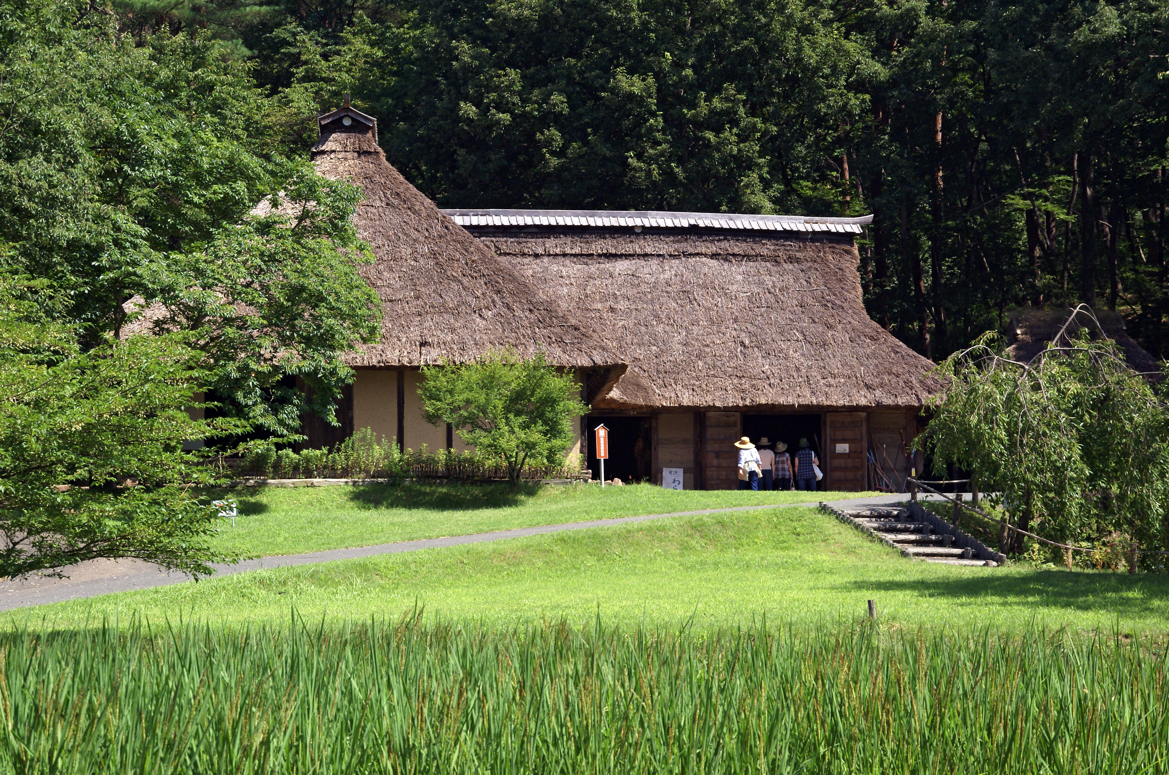 Michinoku Folk Village in Kitakami, Iwate prefecture, Japan